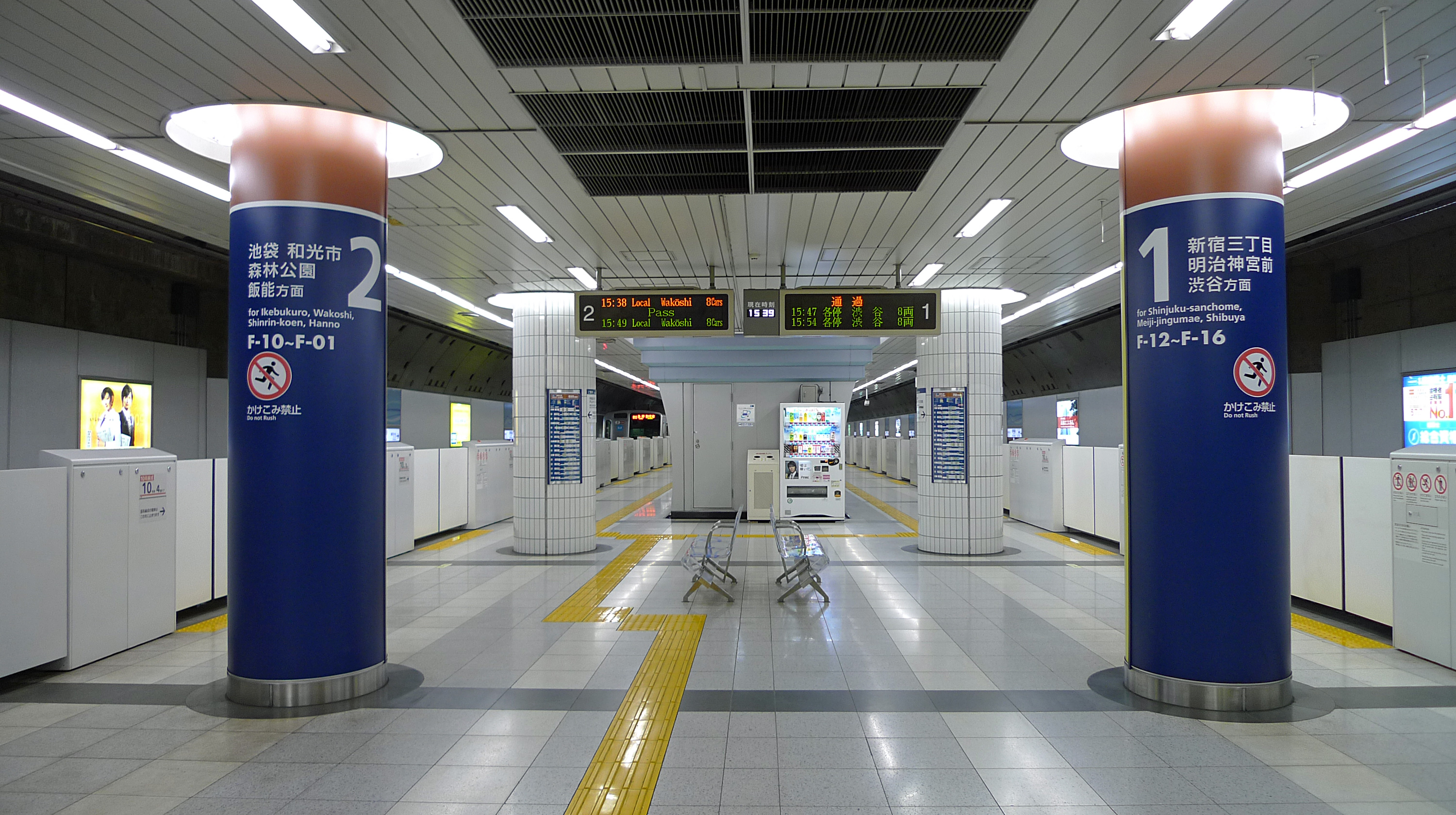 The platforms at Nishi-waseda Station on the Tokyo Metro Fukutoshin Line in Shinjuku, Tokyo